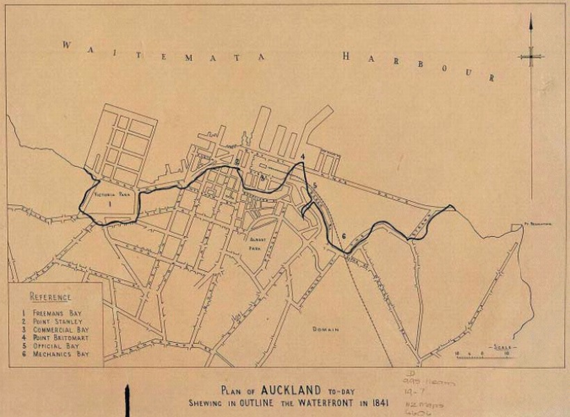 Plan of the Auckland waterfront in Auckland City, New Zealand, pre-1930, based on the shape of the Western Reclamation shown in the plan. The darker line shows the 1841 coastline of the area, with Freemans Bay (1) and Commercial Bay (3) already having been reclaimed.